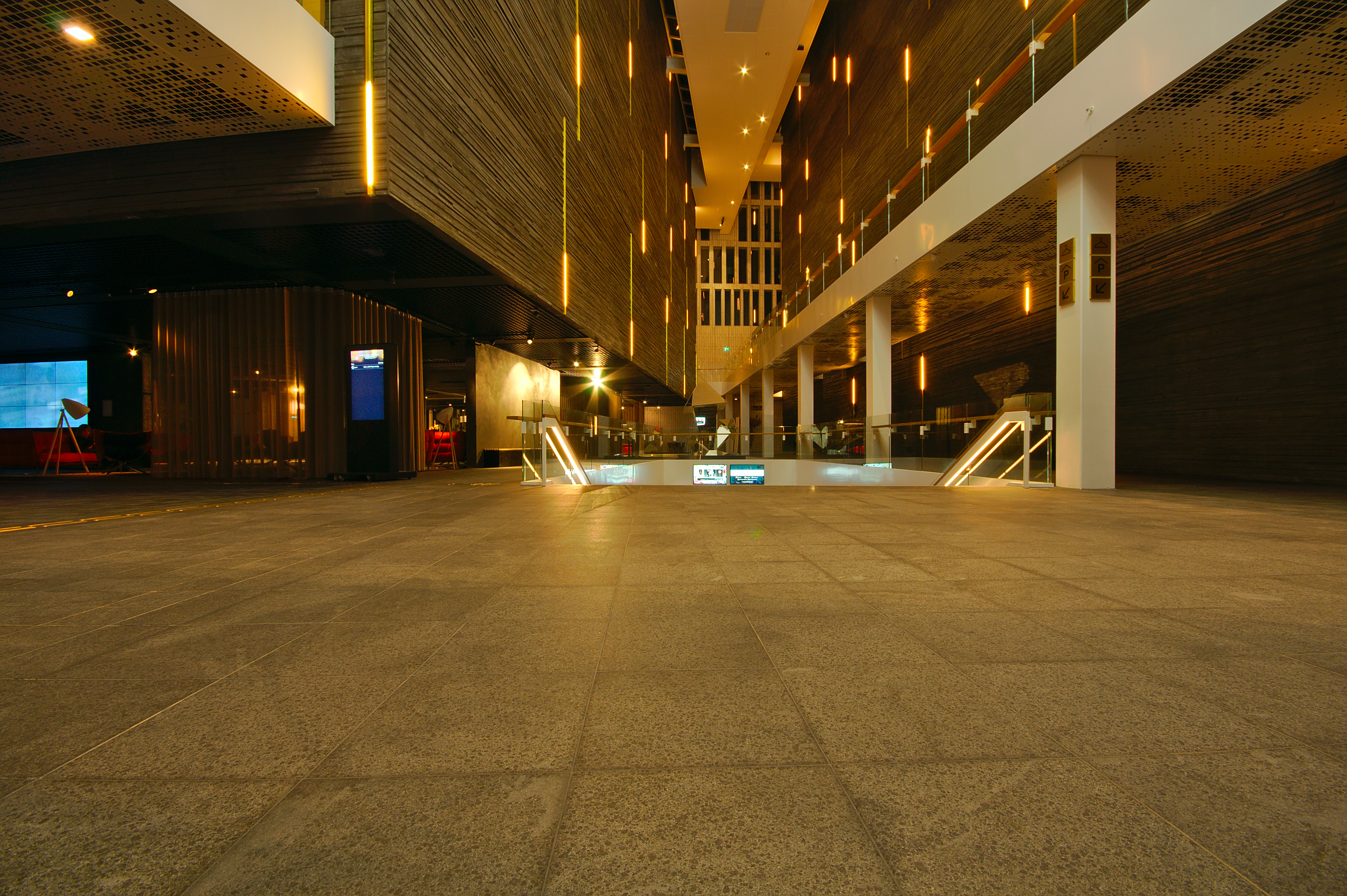 Interior of Malmö Live